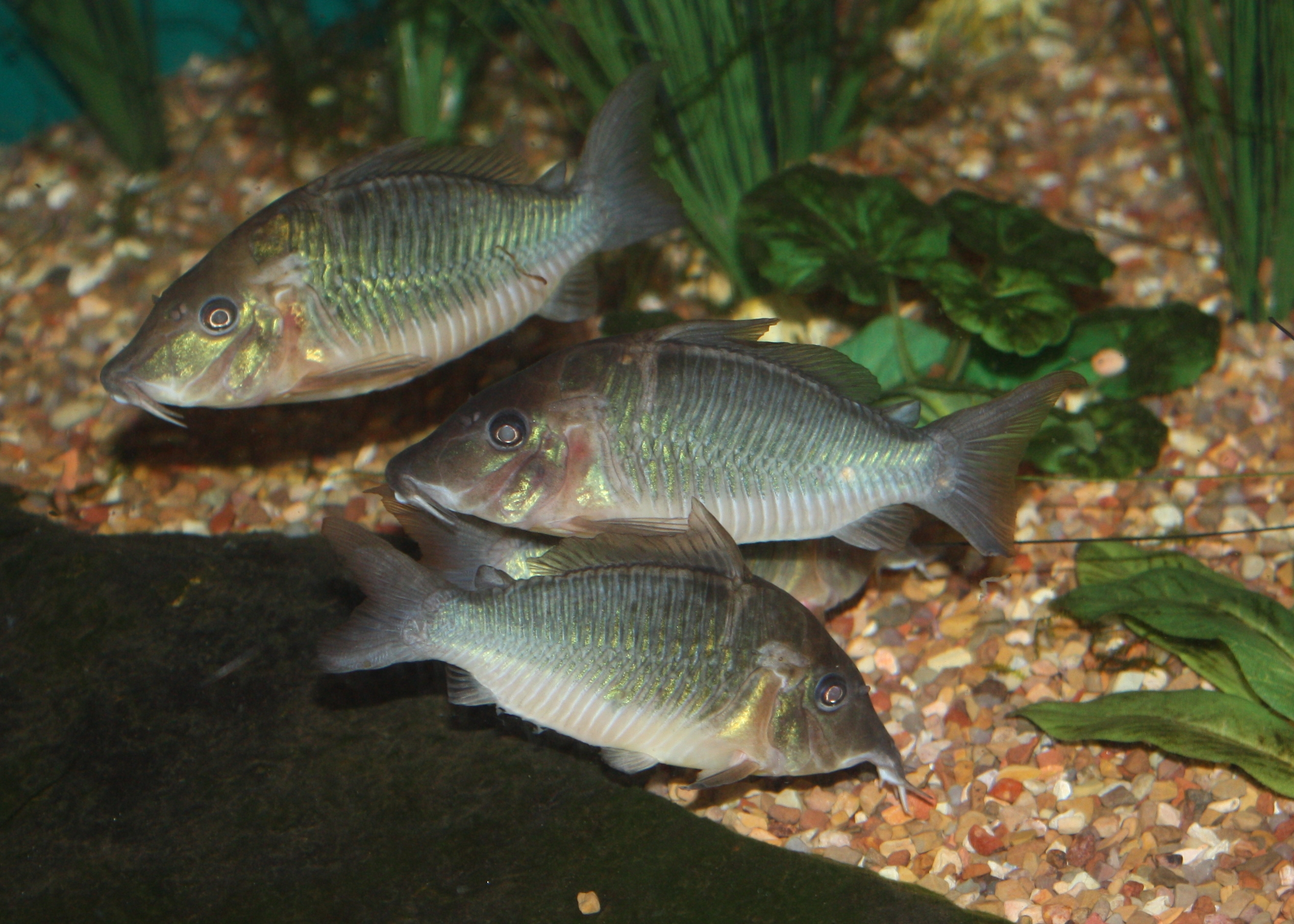 Hognosed Brochis Brochis multiradiatus at the Louisville Zoo.